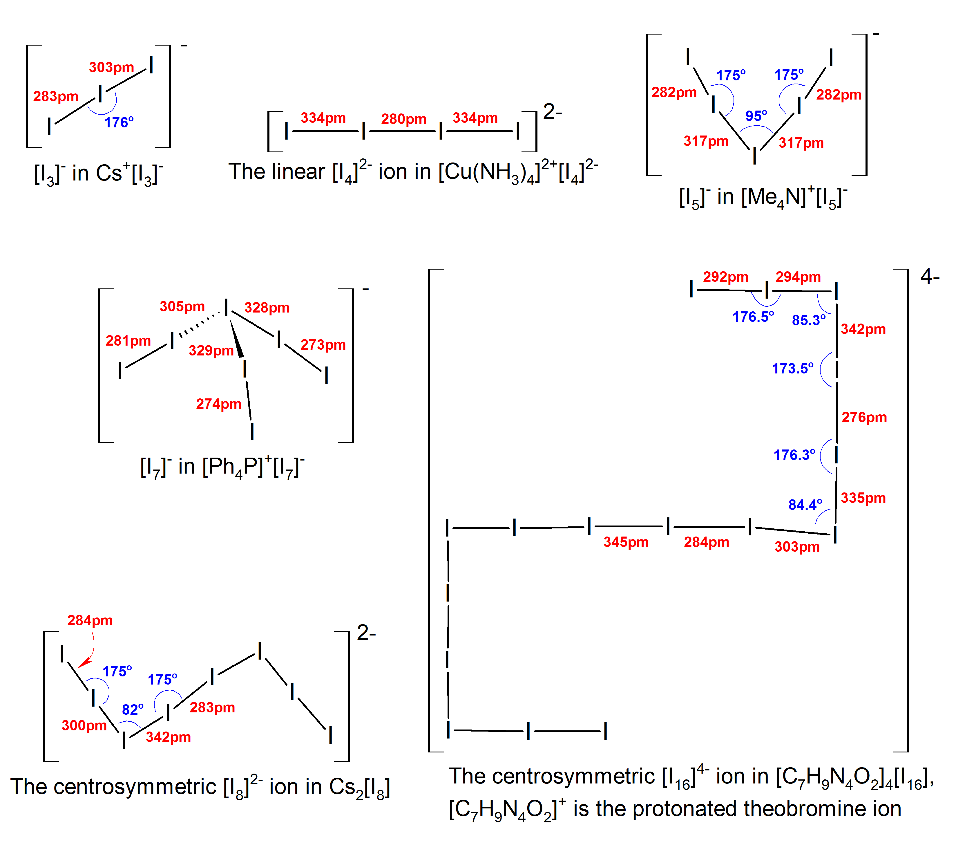 Structures of some polyiodide ions: [I3]-, [I4]2-, [I5]-, [I7]-, [I8]2-, [I16]4